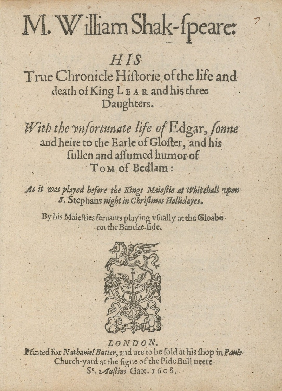 Title page for M. William Shake-speare, his true chronicle historie of the life and death of King Lear, and his three daughters, 1608, by William Shakespeare. STC 22292, Houghton Library, Harvard University